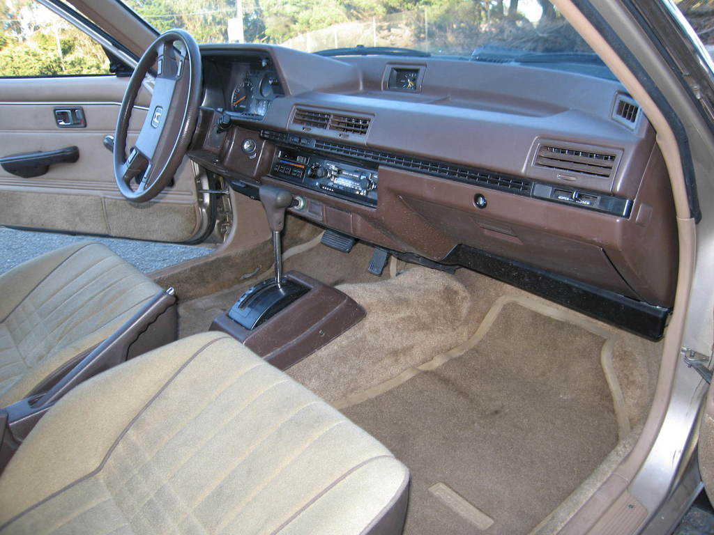 A view of the dashboard of a 1983 Honda Accord.